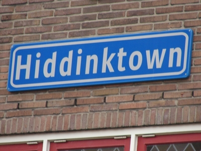 Hiddinktown, Varsseveld (Netherlands) named to Guus Hiddink soccercoach